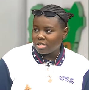 Teni chatting with Wazobia Max TV in July 2018